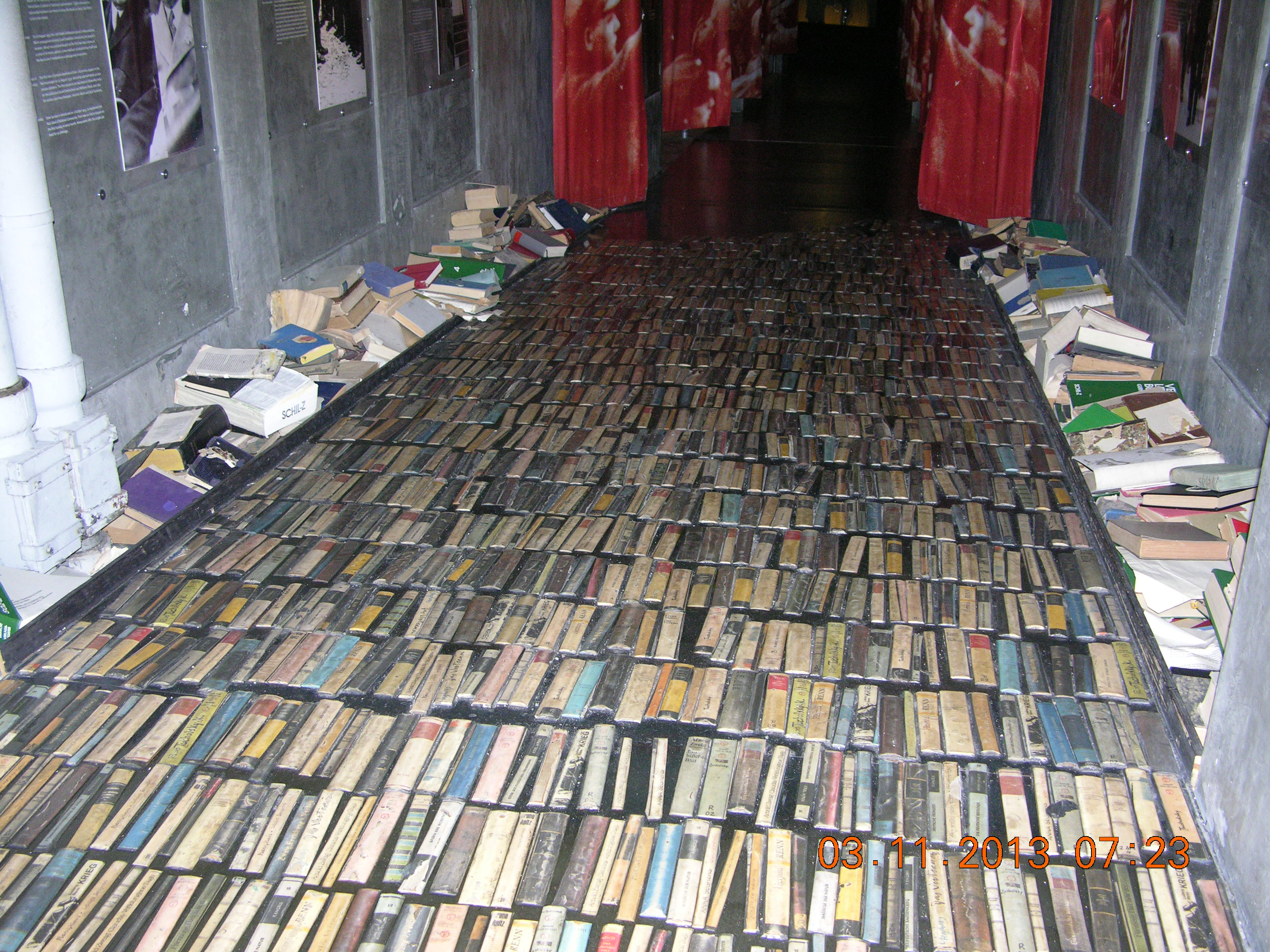 The floor of the museum Story of Berlin. Used to highlight the extreme book burning that took place during the Nazi era in WWII.